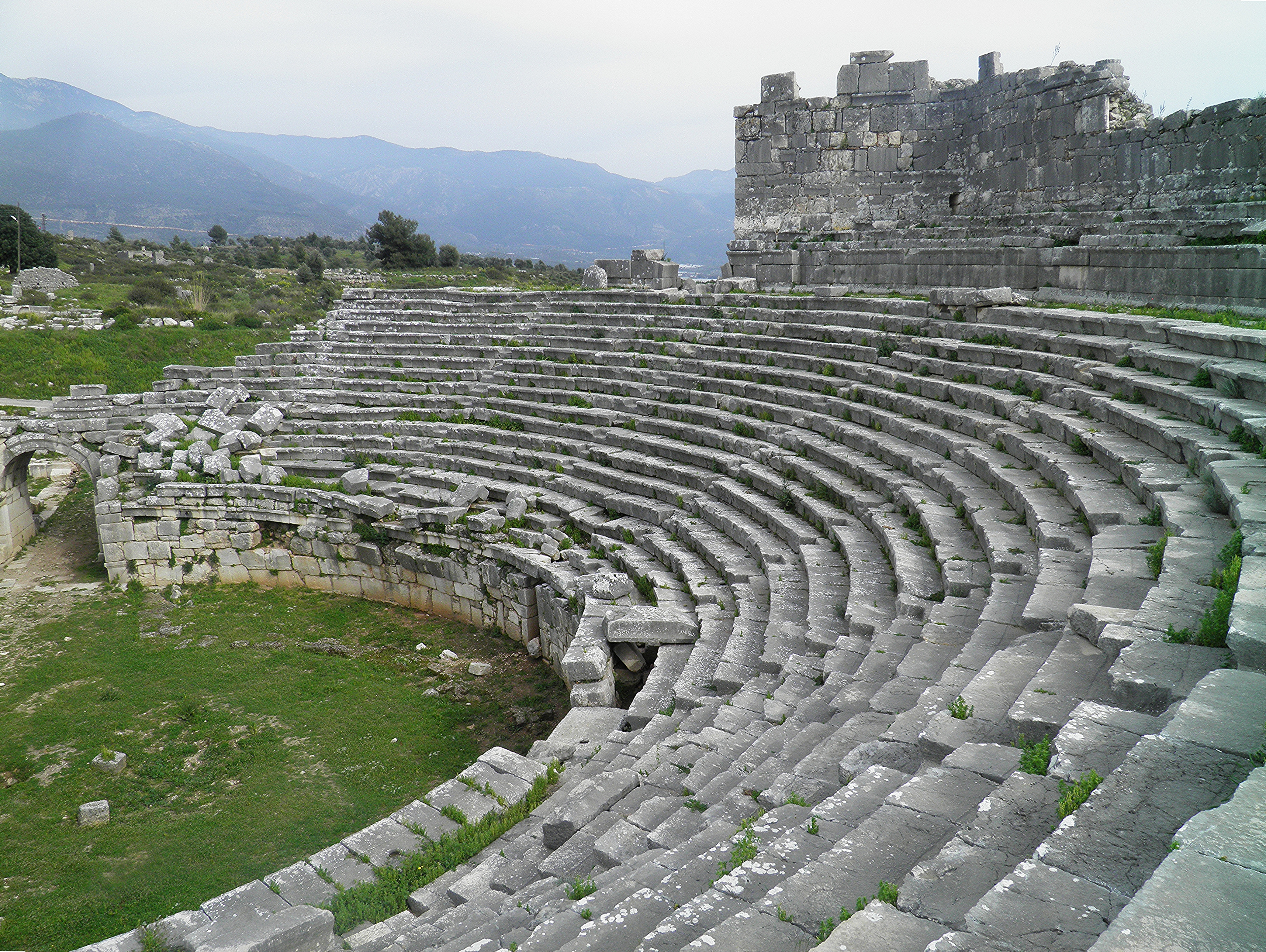 The Roman theatre, built in the mid-2nd century AD, Xanthos, Lycia, Turkey